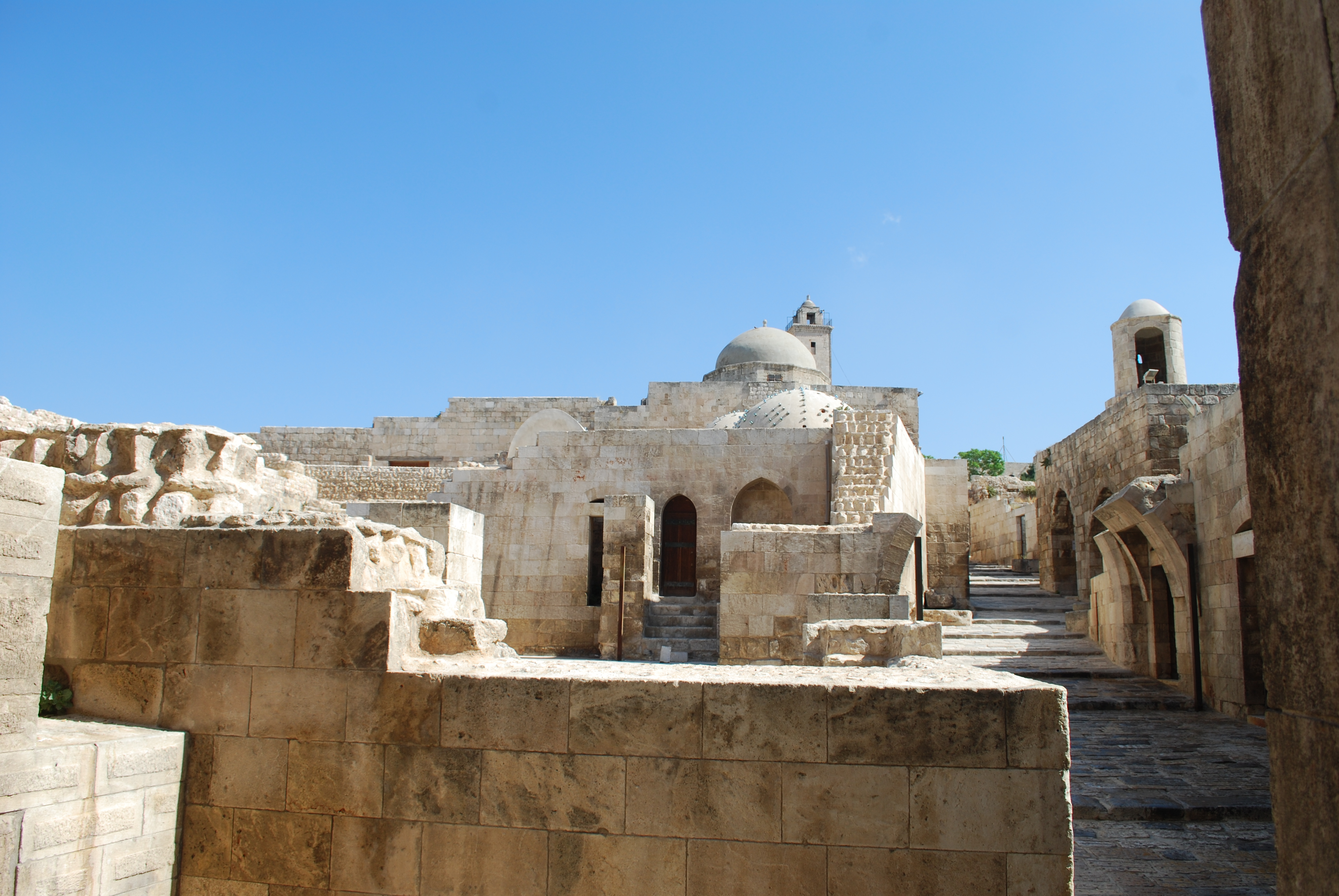 Citadel, view of the hamman, Aleppo in 2004